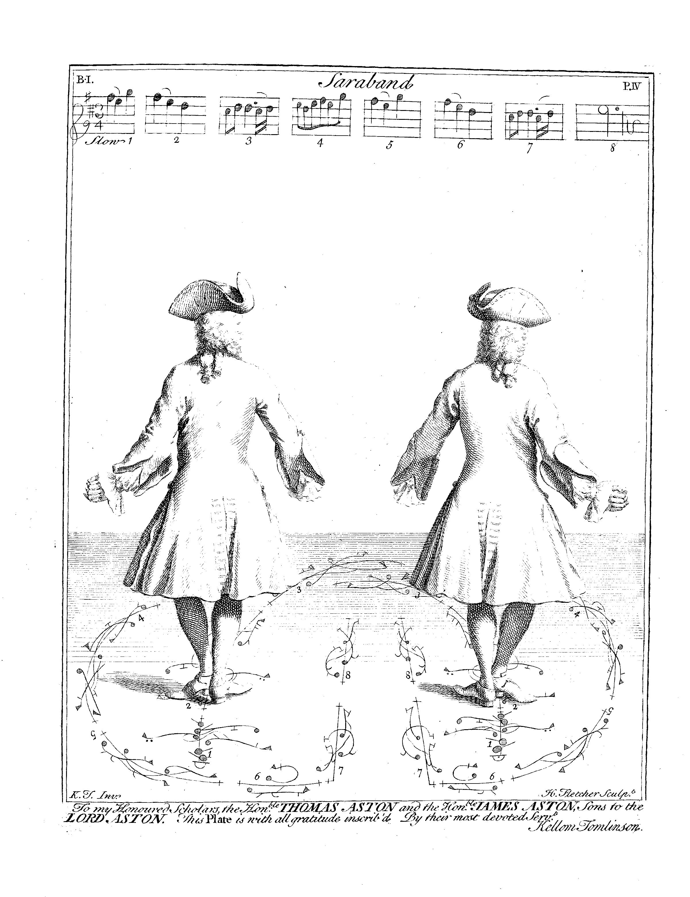 Plate illustrating the sarabande from Kellom Tomlinson's dancing manual The Art of Dancing Explained (London, 1735).